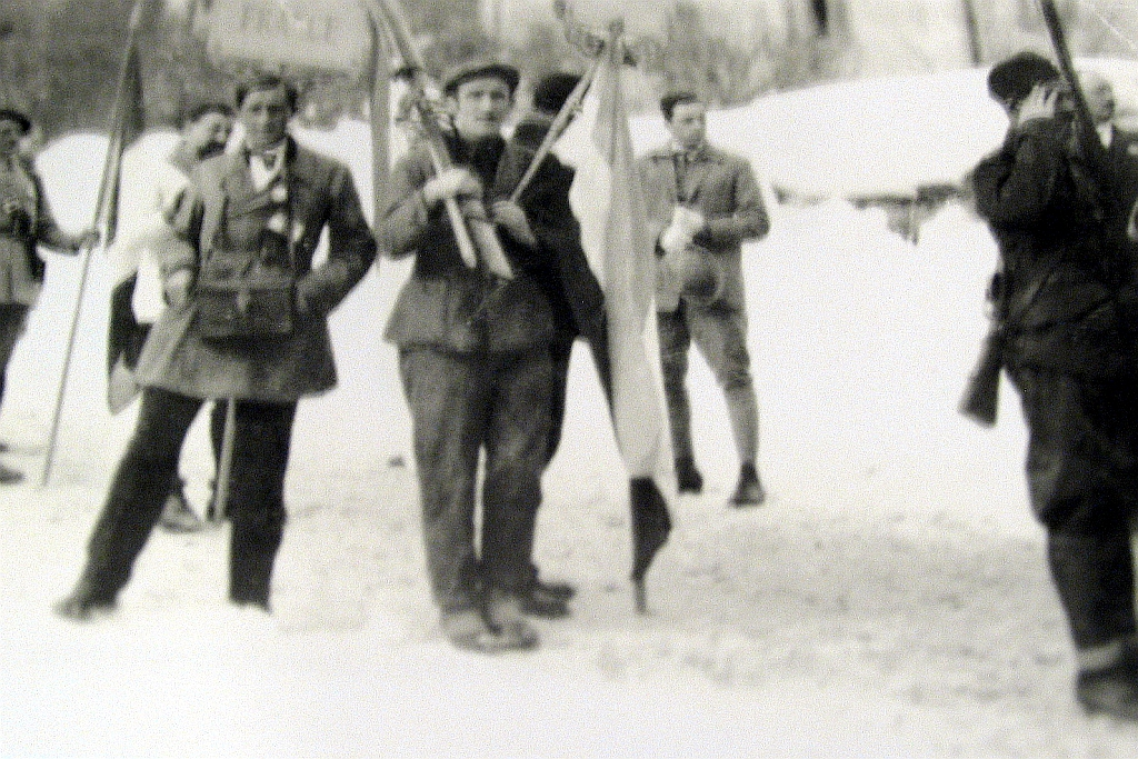 Dušan Zinaja of the Kingdom of Serbs, Croats and Slovenes (carrying national flag and with skis on his right shoulder) during the Opening ceremony of the Winter Olympic Games in 1924 in Chamonix, France